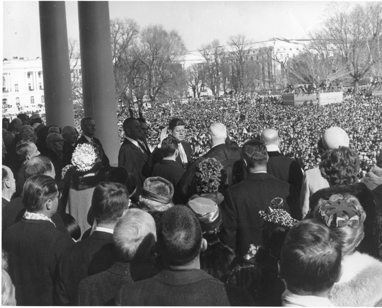 Inauguration of President Kennedy - Oath of Office, Washington, D. C., United States Capitol